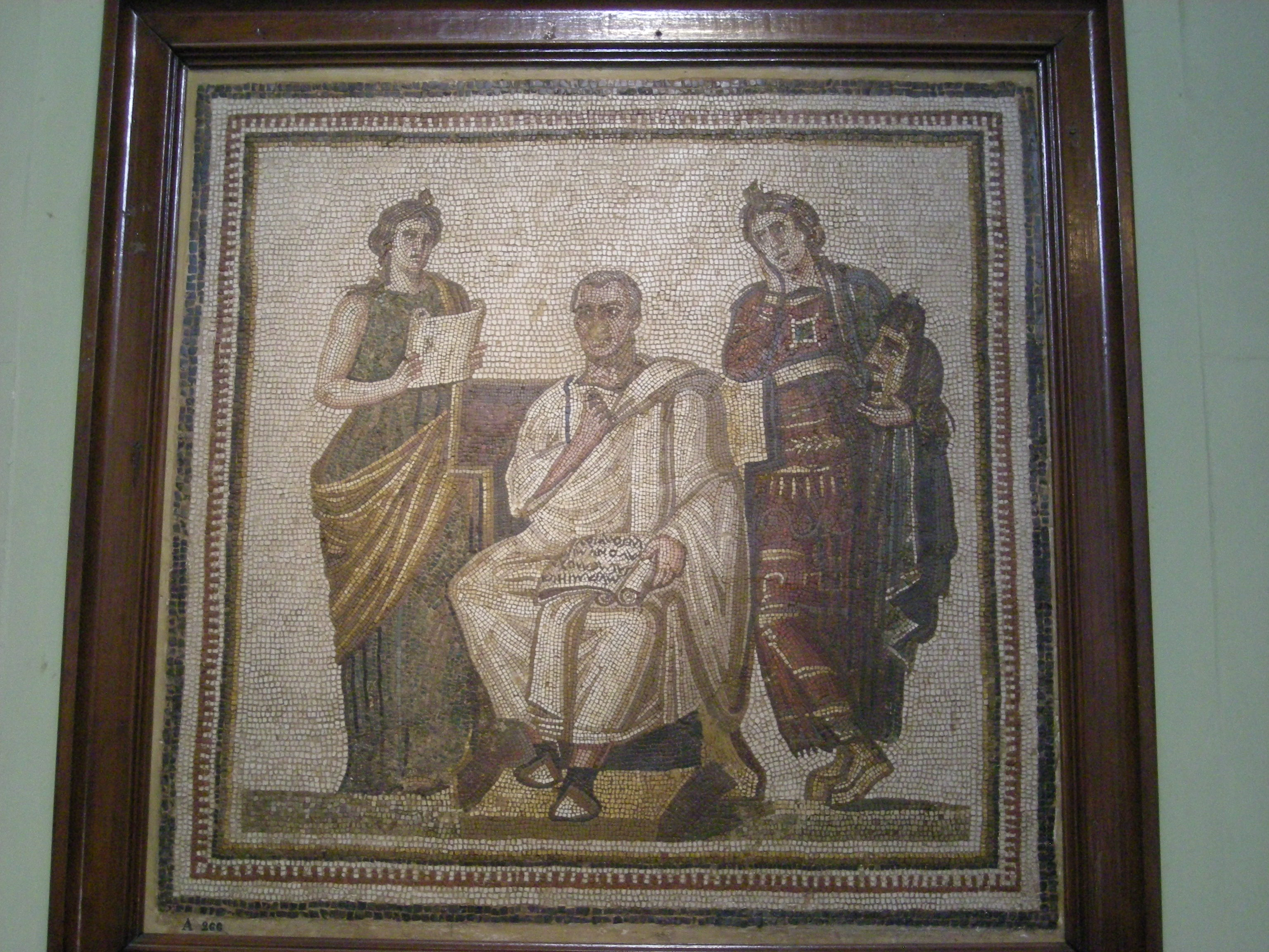 The great Latin poet, Virgil, holding a volume on which is written the Aenid. On either side stand the two muses: "Clio" (history) and "Melpomene" (tragedy). The mosaic, which dates from the 3rd Century A.D., was discovered in the Hadrumetum in Sousse, Tunisia and is now on display in the Bardo Museum in Tunis, Tunisia.